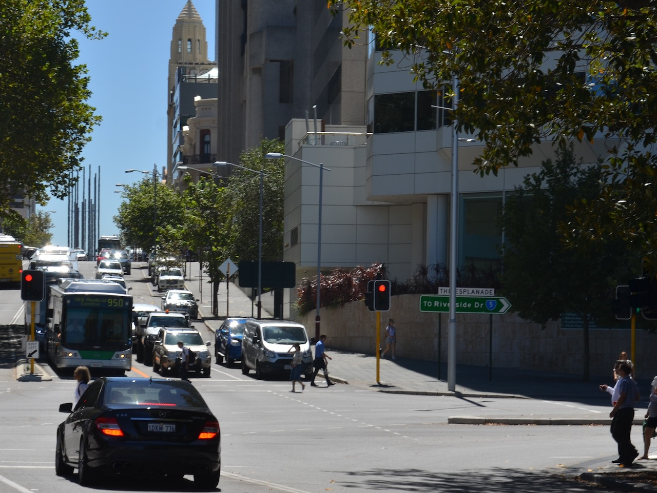 Location of the former Embassy Ballroom, Capitol Theatre at right of photo - small detail of former Palace Hotel and Gledden building on right, and structure in Yagan Square at rear of photo